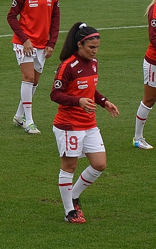 Bilgin Defterli for Turkey women's national football team in the home match against Belarus on September 17, 2014